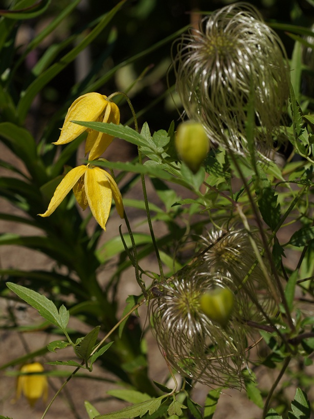 The photo shows the yellow flowers and its "hairy" fruits. Clematis tangutica Семейство Лютиковые (Ranunculaceae) Native to Middle Asia ( Kazakhstan, Mongolia) Cultivated Другие названия: Ломонос тангутский, (Tamara's dacha)